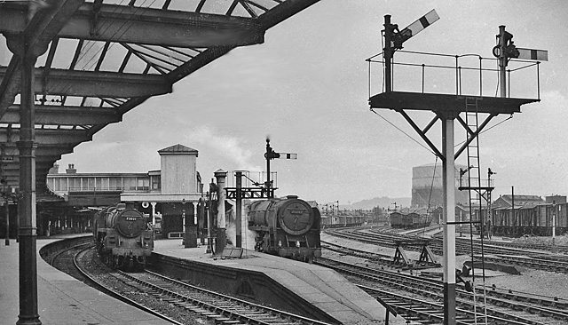 Gloucester Eastgate Station, with trains. View NE, along the main Up platform from towards its southern end; ex-Midland Birmingham - Bristol main line, Tuffley Loop (Tramway Junction - Tuffley Junction). This Station, along with the whole Loop, was eliminated in 1975 before the ex-Great Western Gloucester Central was converted to the only Station for Gloucester, forcing all trains on the Birmingham - Bristol axis to reverse there. Here two Down trains are present: a BR Standard Class 5 4-6-0 on the 16.40 from Birmingham New St., and a BR Standard Class 7 4-6-2 on a Down parcels train. In the distance the line curves round to join the GWR at Tramway Junction off to the right, past the GWR Horton Road Locomotive Depot.